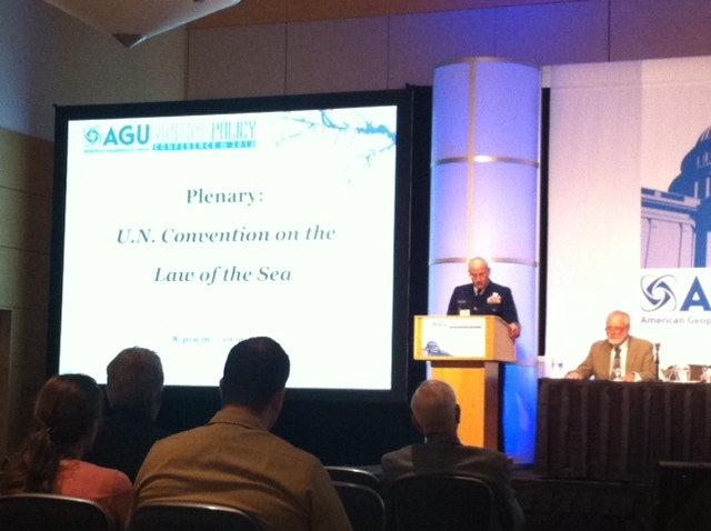 Photograph of a speaker at a plenary session on the U.N. Convention of the Laws of the Sea at an American Geophysical Union policy conference in Washington, DC in May 2012.